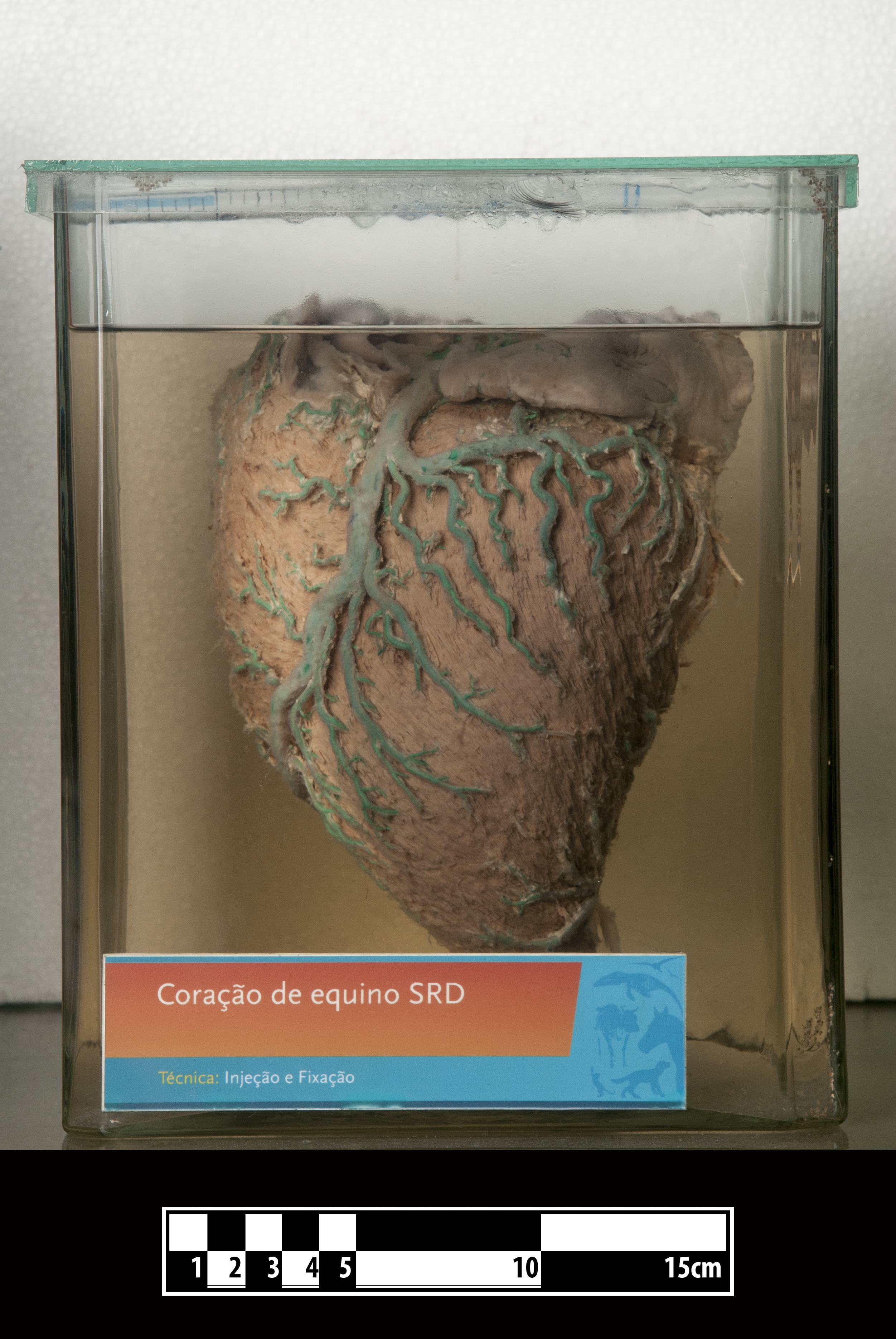 Equine heart. Equus Technique of latex injection and formalin on display at the Museum of Veterinary Anatomy, FMVZ USP. This file was published as the result of a partnership between the Museum of Veterinary Anatomy FMVZ USP, the RIDC NeuroMat and the Wikimedia Community User Group Brasil. This GLAM project is reported. Photography: Museum of Veterinary Anatomy FMVZ USP. Author: Wagner Souza e Silva.